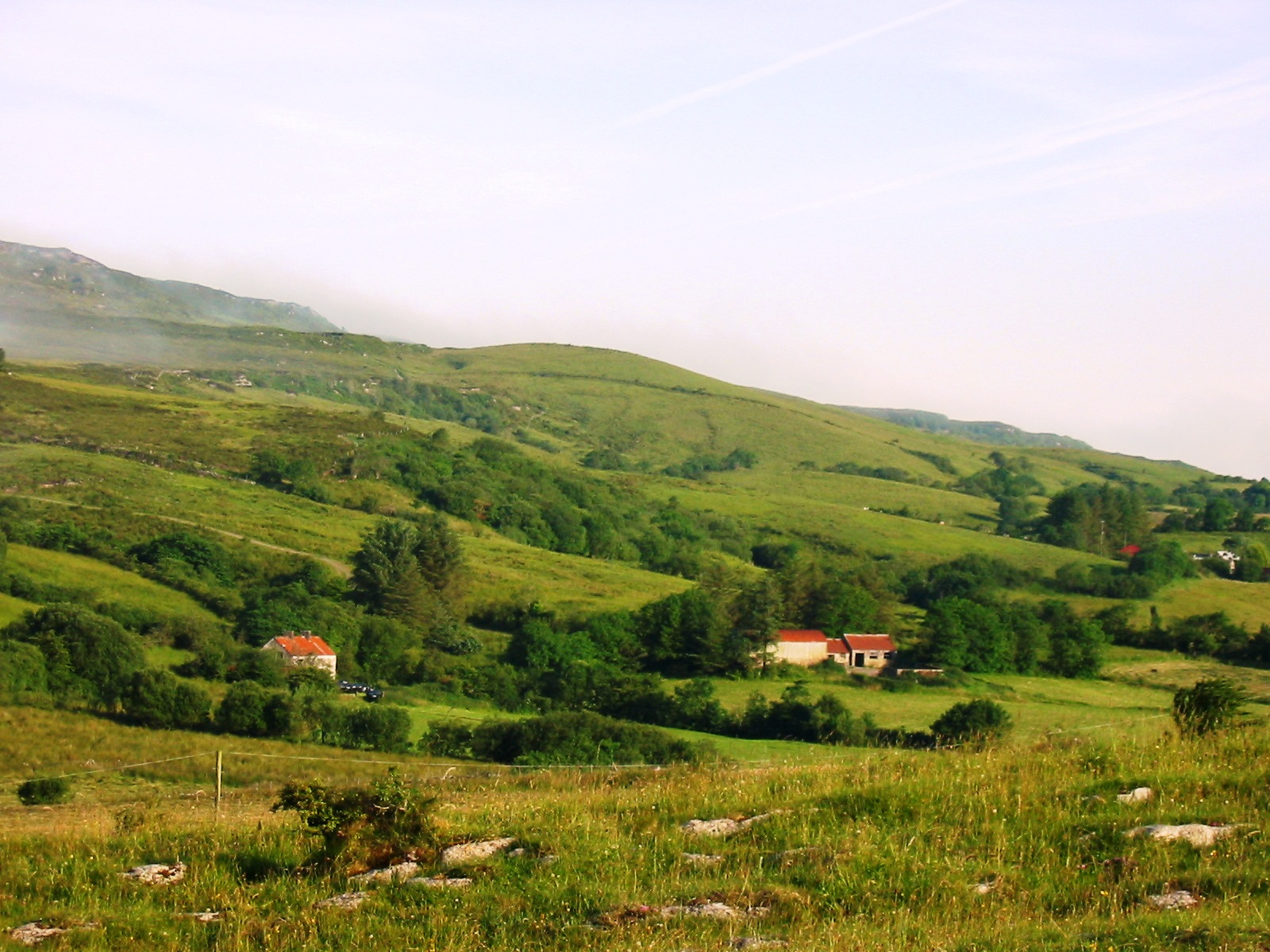 Limestone pavement/grassland abutting the hills of Boho, County Fermanagh, Northern Ireland